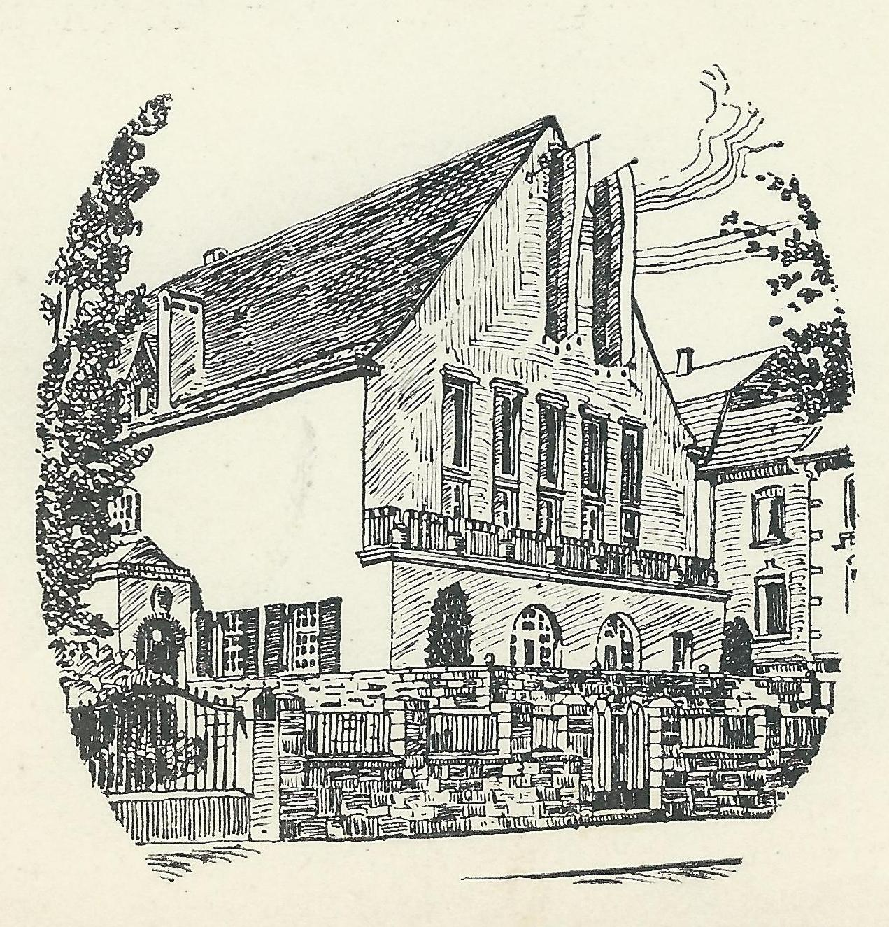 Corpshaus der Suevia Freiburg von 1912